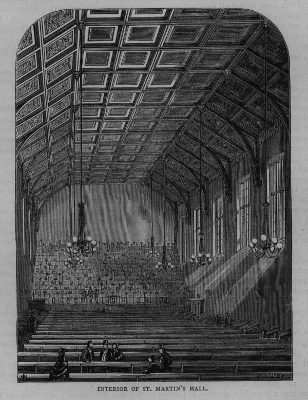 Print of St Martin's Hall. Walter Thornbury, Old and New London: A Narrative of its History, its People and its Places. Illustrated with Numerous Engravings from the Most Authentic Sources.: Volume 3